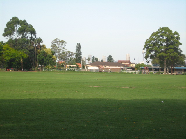 Centenary Park looking towards Sydney CBD. Croydon, NSW, Australia.